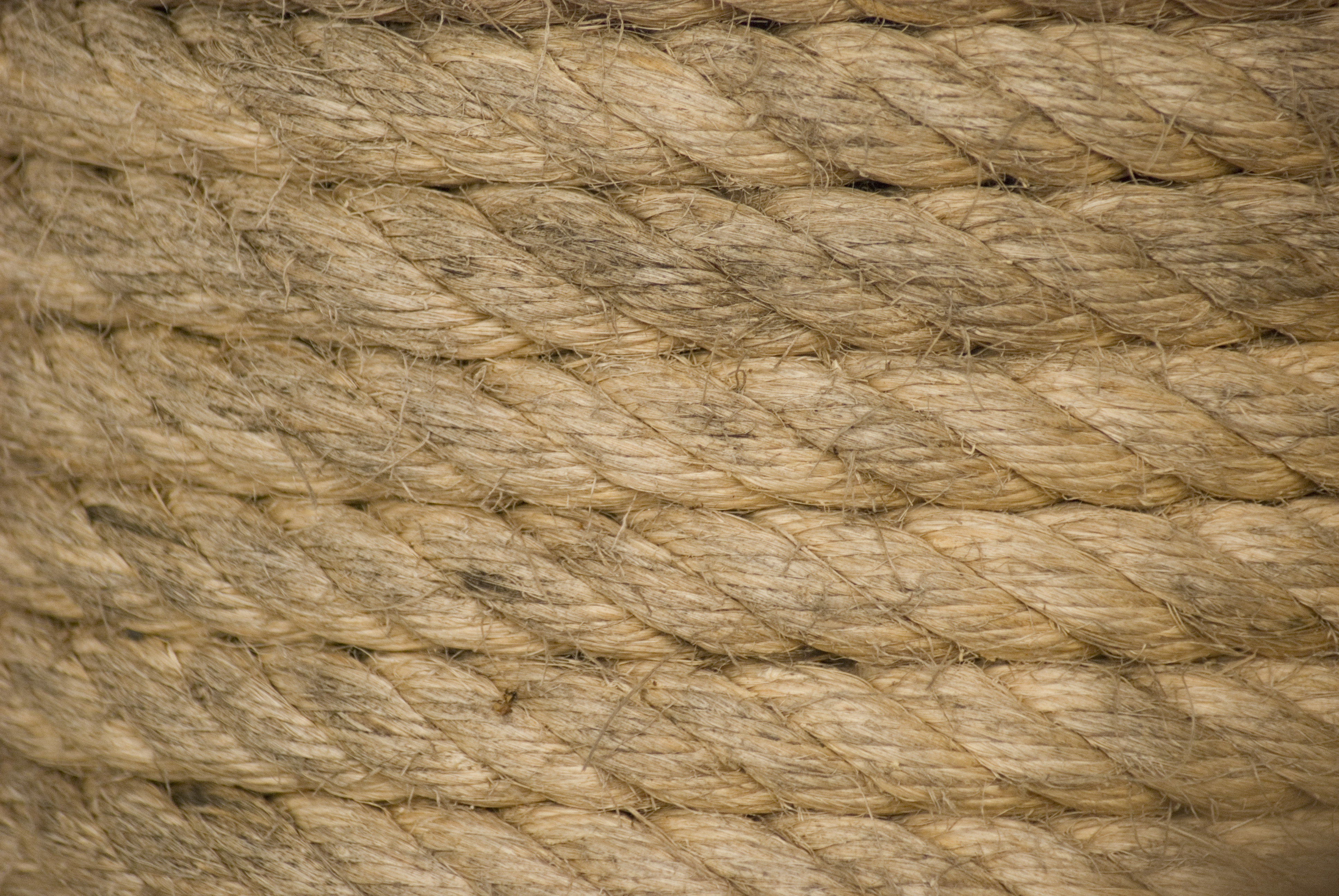 A closeup of a rope bundle.